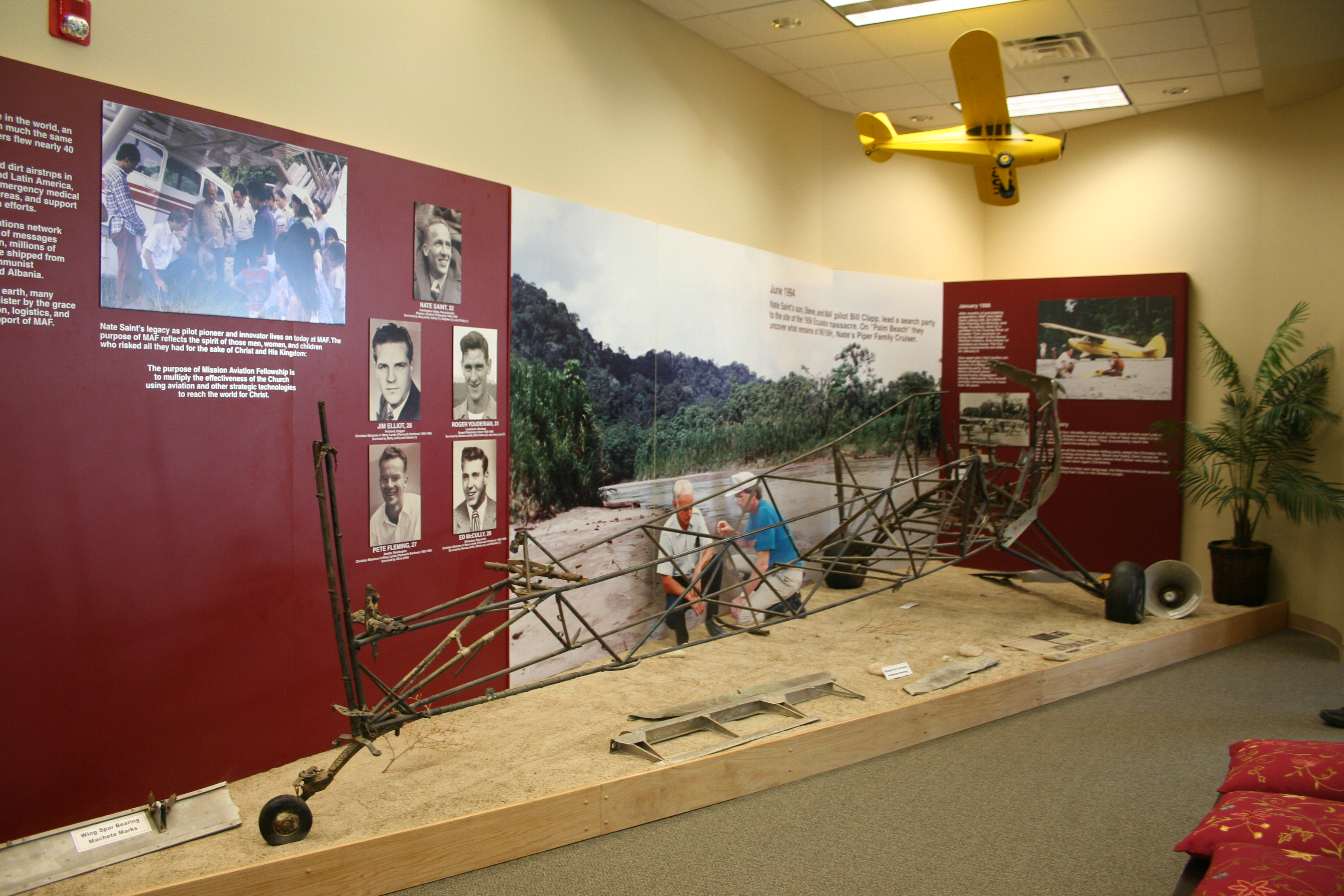 Nate Saint's Piper Airplane on display at Mission Aviation Fellowship headquarters in Nampa, ID